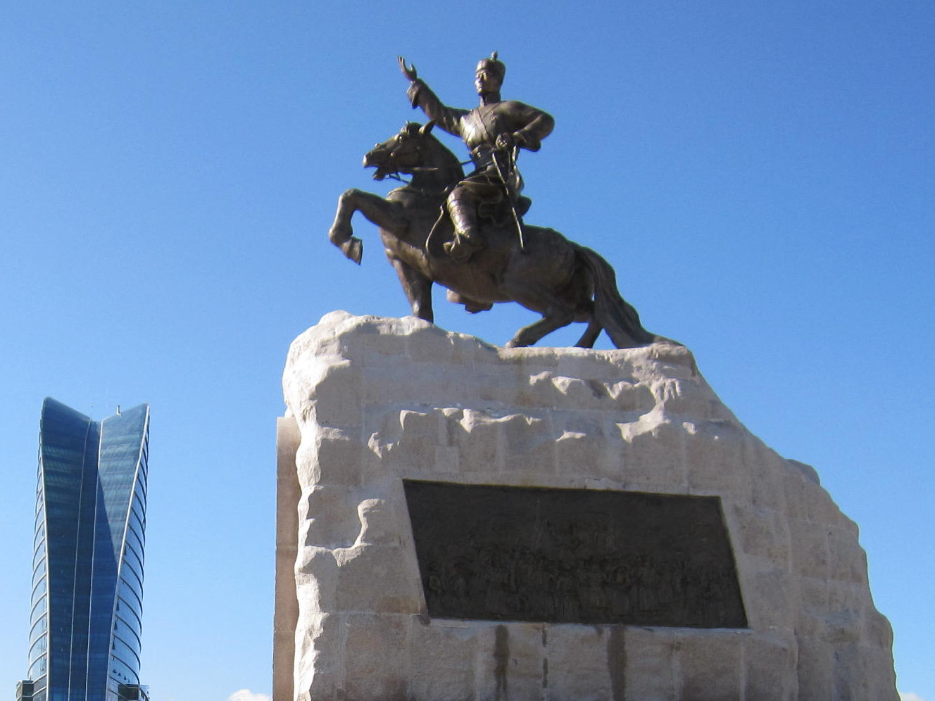 The Statue of Sukhubaatar in Ulaanbaatar